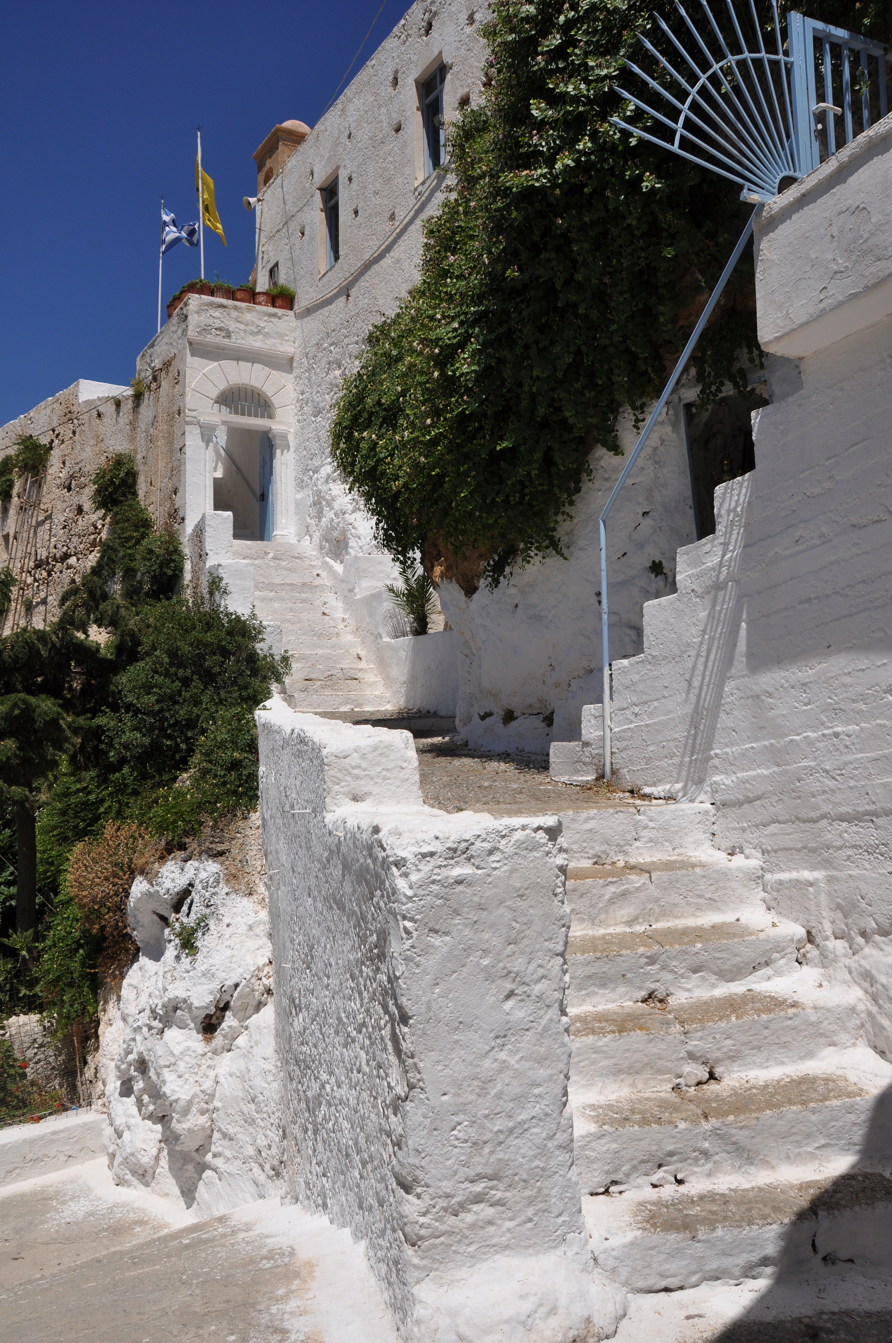 Monastery of Chrysoskalitissa (Crete, Greece)